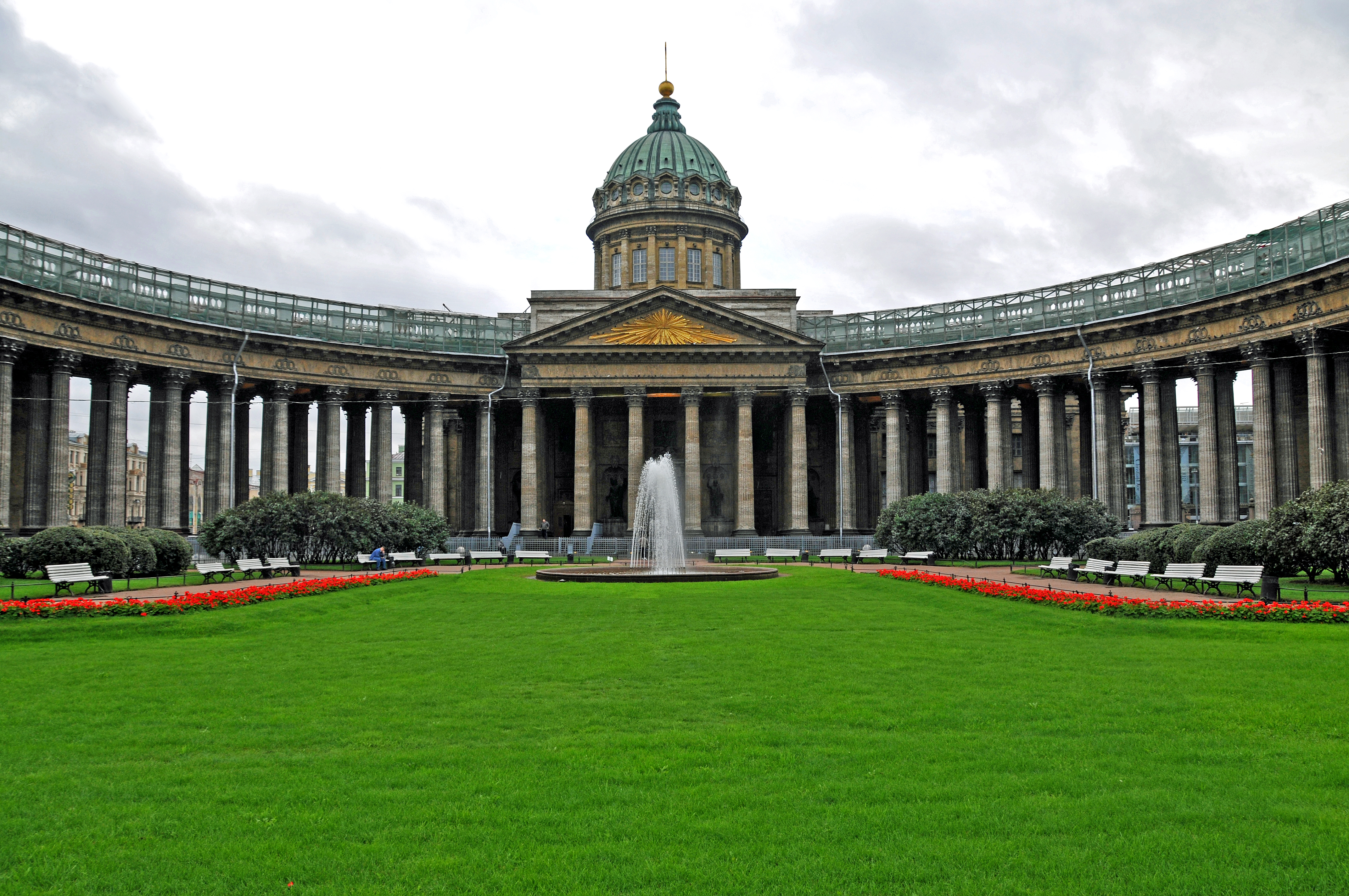 The Kazan Cathedral in Saint Petersburg, Russia.